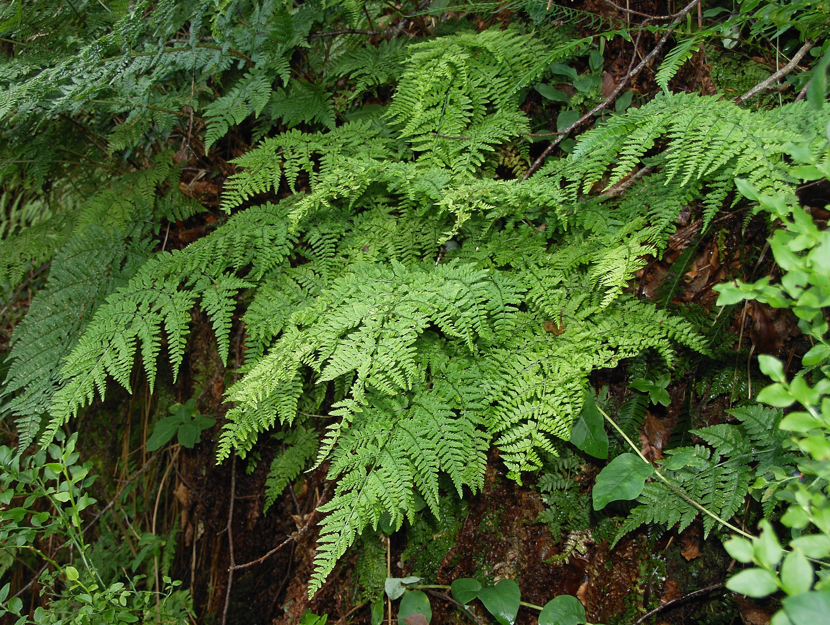 Dryopteris aemula (hay-scented fern) in woodland, Galloway, Southern Scotland.